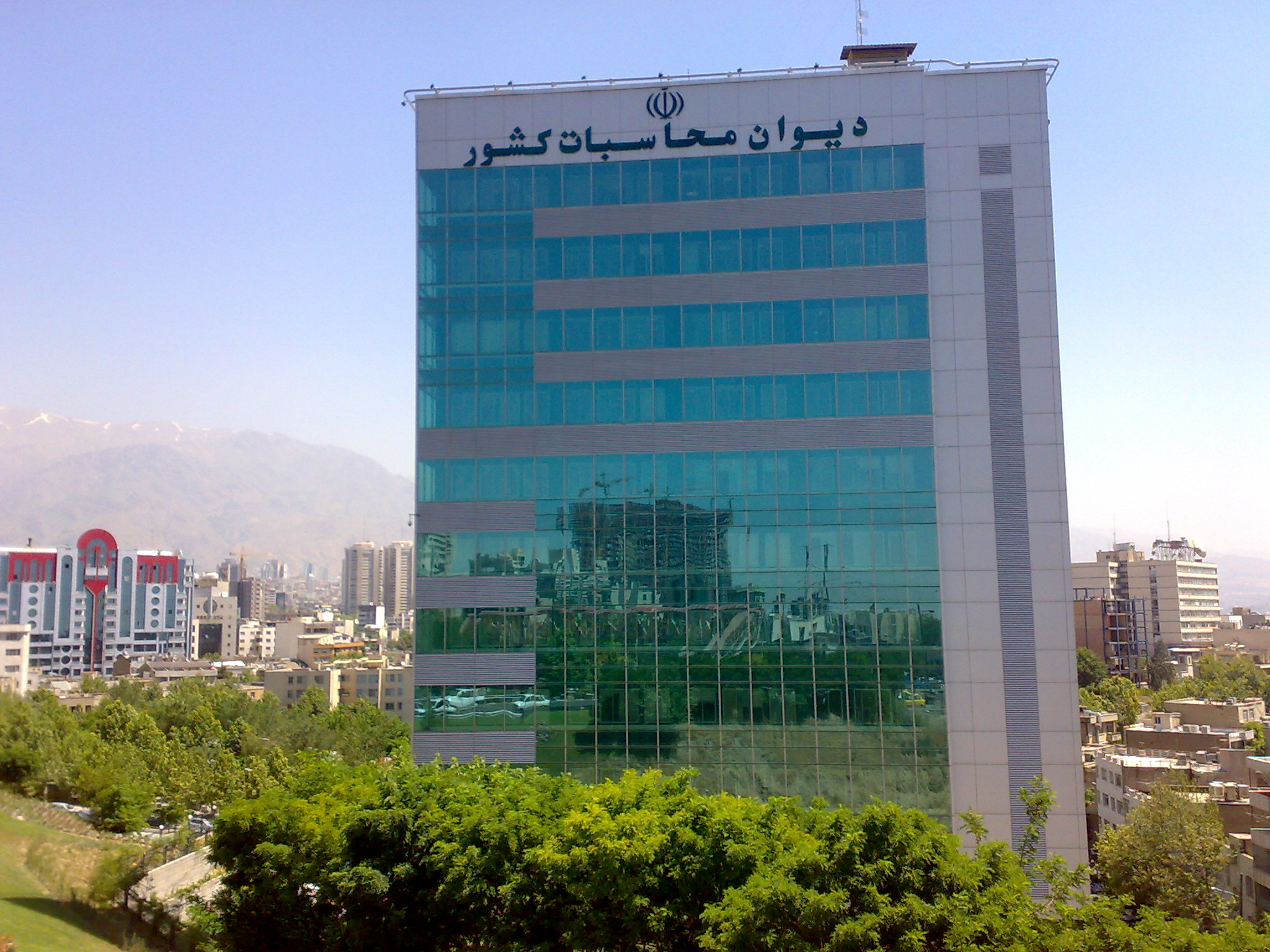 Supreme Audit Court Building in tehran iran. ساختمان دیوان محاسبات کشور در ایران تهران